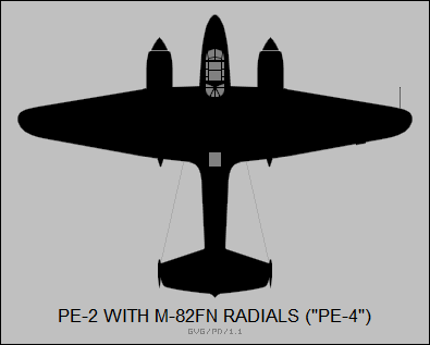 Plan-view silhouette of the Petlyakov Pe-2 with M-82FN radial engines (a.k.a.Pe-4)